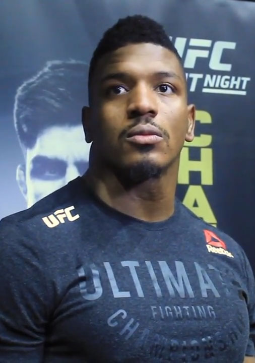 Alonzo Menifield Jan 20, 2019